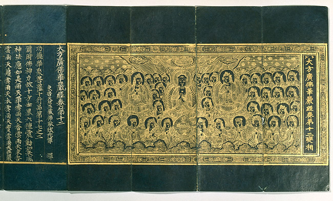 Avatamsaka Sutra, vol. 12, (화엄경 華嚴經 12권)frontispiece in gold and silver text on indigo blue paper W: 12 3/8 in. x H: 4 5/8 in. (each fold) Ho-Am Art Museum